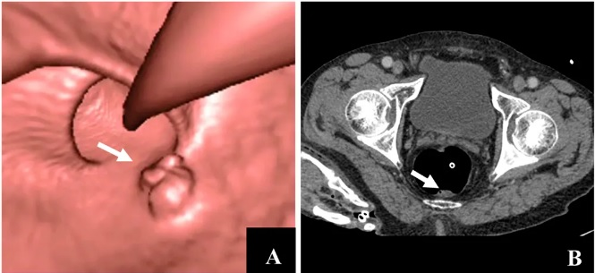 CT colonography of a rectal mass. Left image is a volume rendering and right image is a thin slice. It also shows the rectal tube used for insufflation of gas to distend the colon. Original caption: Differentiation from stool and colonic neoplasia by dual-energy CT. Male, 88 years of age. (A,B) denote colonography and CT axial plane image revealed irregular upheaval masses in the posterior wall of the rectum (white arrow). It is difficult to differentiate tumors from stool. Dual-energy contrast-enhanced CT (axial plane) revealed no enhancement of masses, iodine value = −1.4 mg/ml (white arrow), suggesting no blood supply to the masses, which was validated as stool by colonography.